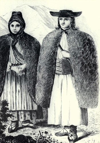 Boykos. Subethnic group of Western-Ukrainian highlanders from the Carpathian mountains.